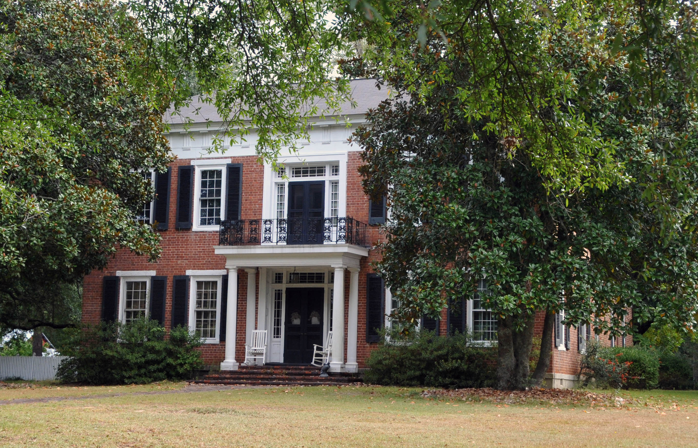 1840; DOCKERY WAS A BRIGADIER GENERAL OF THE TENNESSEE STATE MILITIA IN THE CIVIL WAR